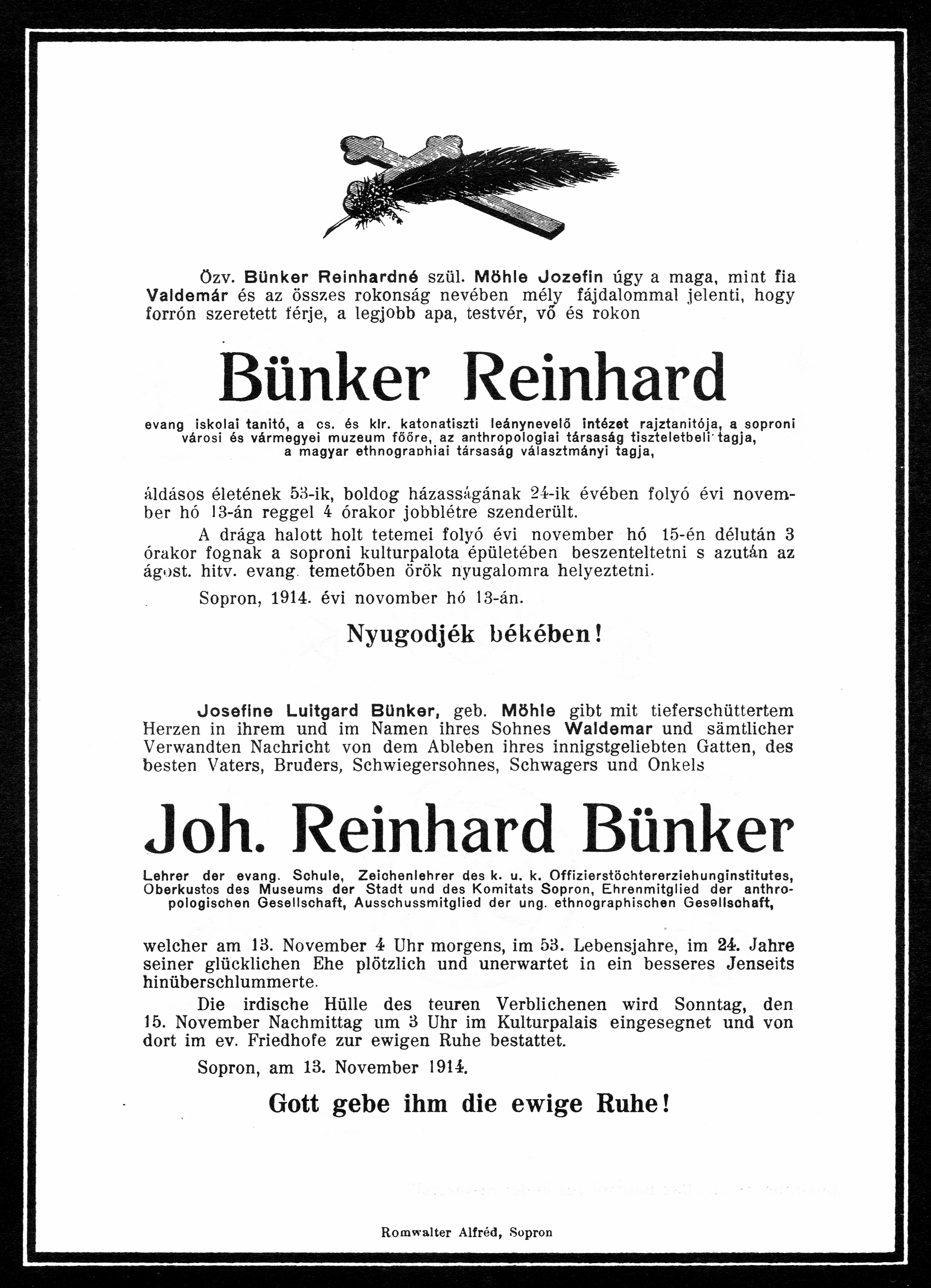 Obituary of Johann Reinhard Bünker (also János Rajnárd Bünker) (1863-1914) teacher and folklorist in Austria at the time of the monarchy with family in Sopron / Hungary / EU.